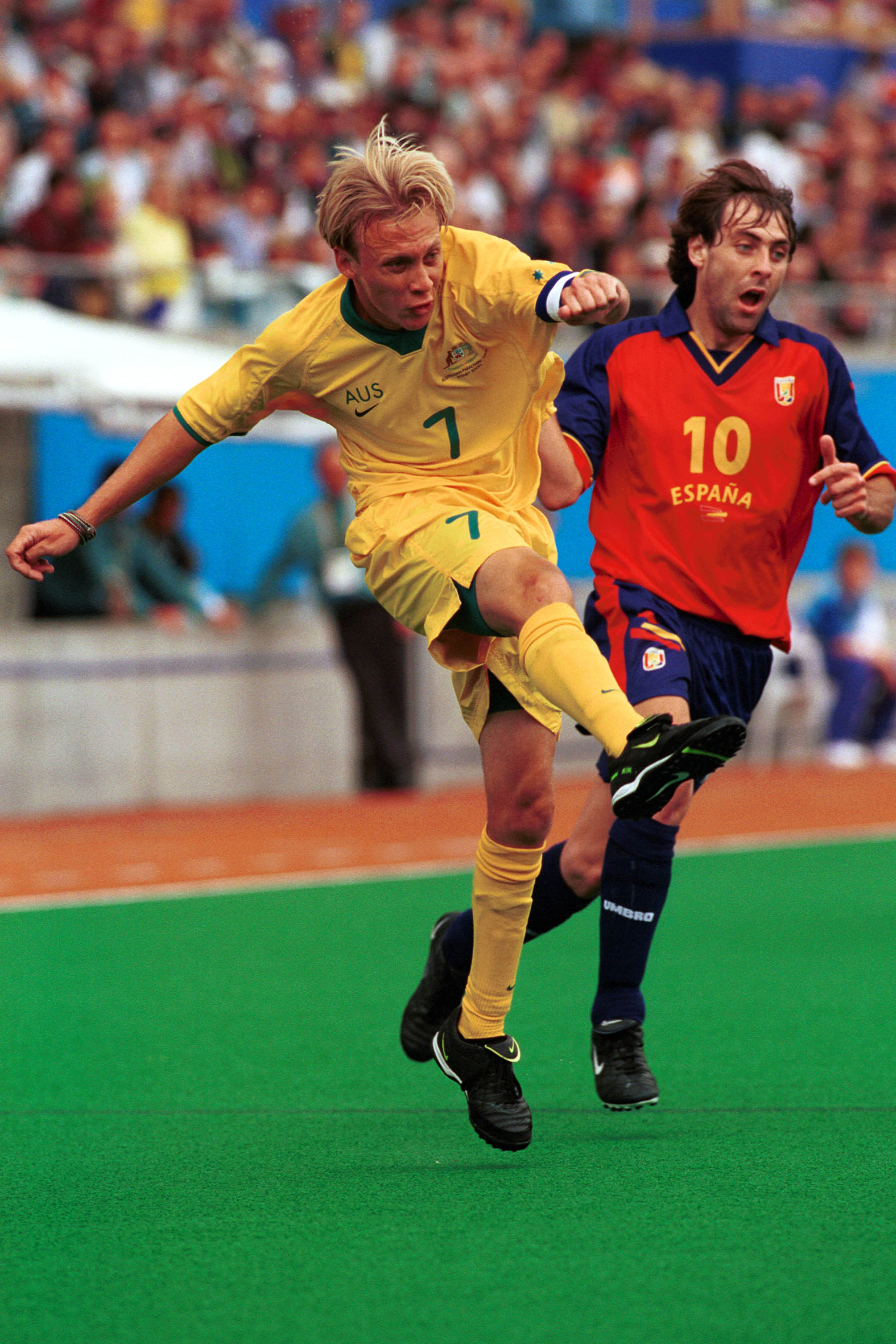 Australian football player David Barber during 2000 Sydney Paralympic Games match